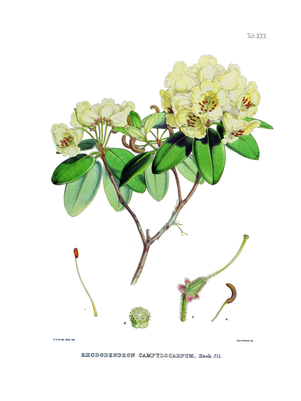 Illustration of Rhododendron campylocarpum as scanned from the book Rhododendrons of the Sikkim-Himalaya published in 1849-1851